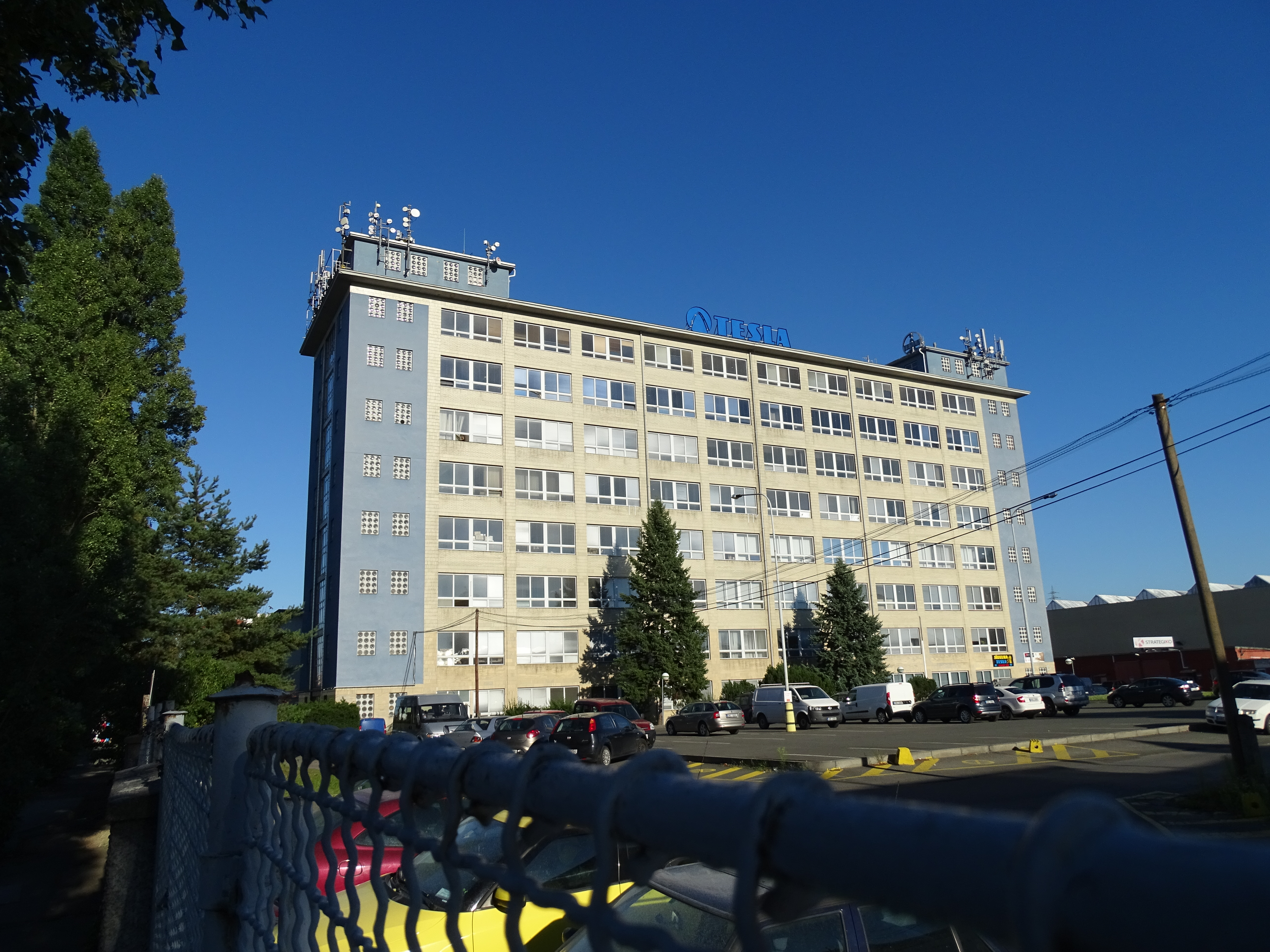 Prague-Hloubětín, Czech Republic. Poděbradská street, Tesla Hloubětín.